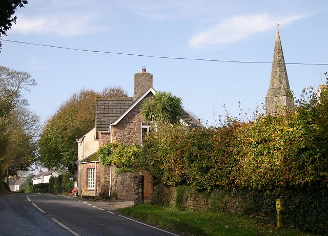 Sheviock. A view of the village from the eastern side. The church spire on the right is the Parish Church of St Mary, Sheviock. While this may look an idyllic scene, Sheviock is one of those unfortunate villages which is split by a fast main road. Although some of the traffic actually obeys the 40mph speed limit, this does not really help to make it either peaceful or safe.